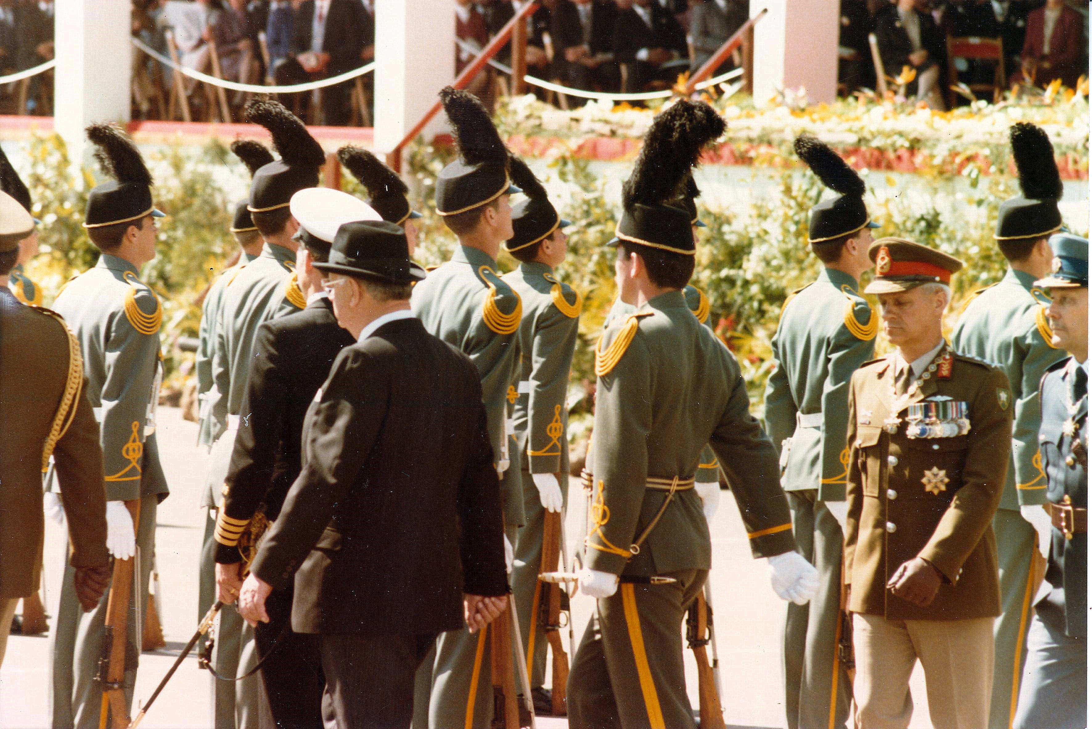 In September 1984 PW Botha was inaugurated as the State President of South Africa. Here he inspects the guard of honour along with General Constand Viljoen who was head of the Defence Force